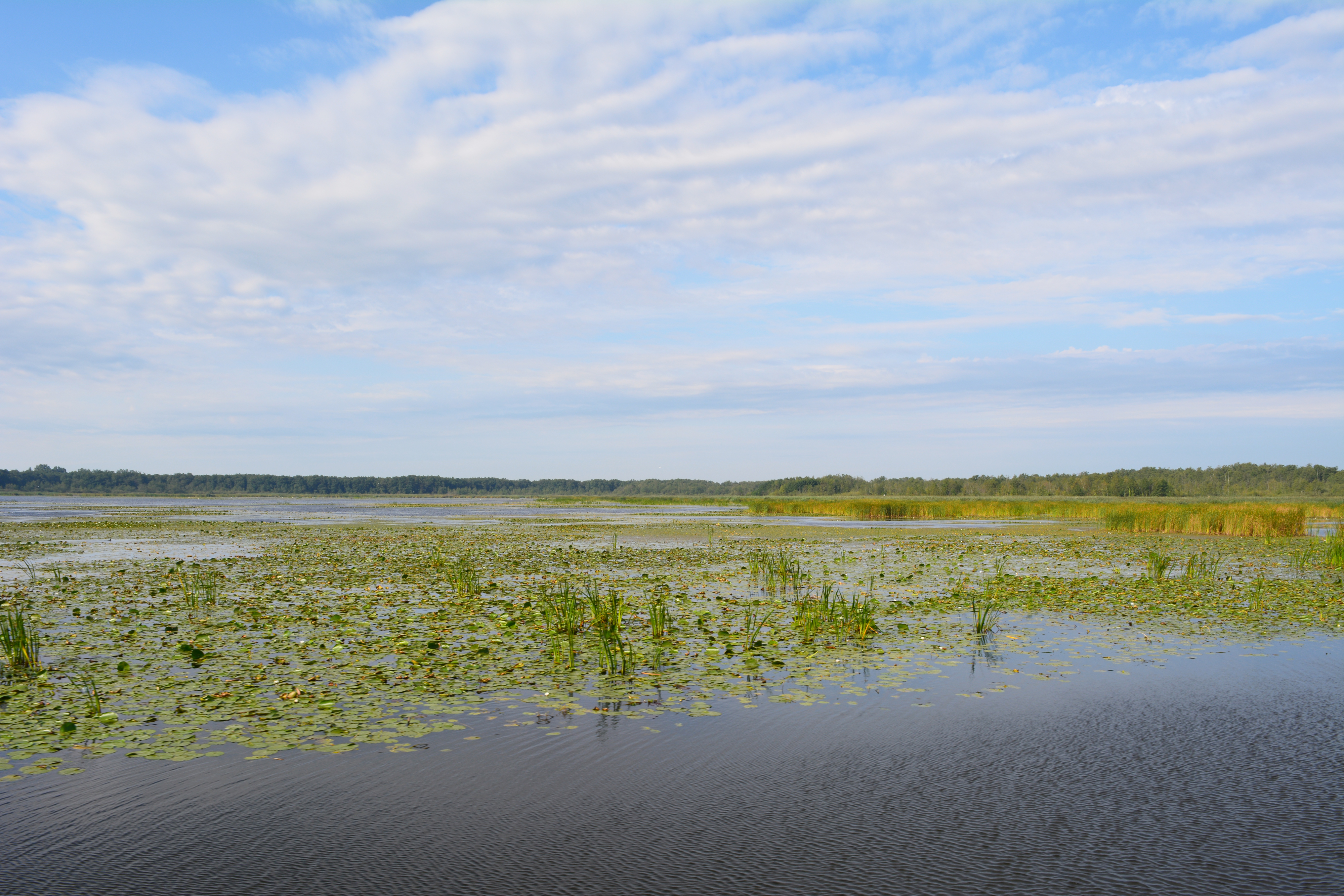 Druzno (also known as Drużno), Elbląg surroundings, Warmian-Masurian Voivodeship